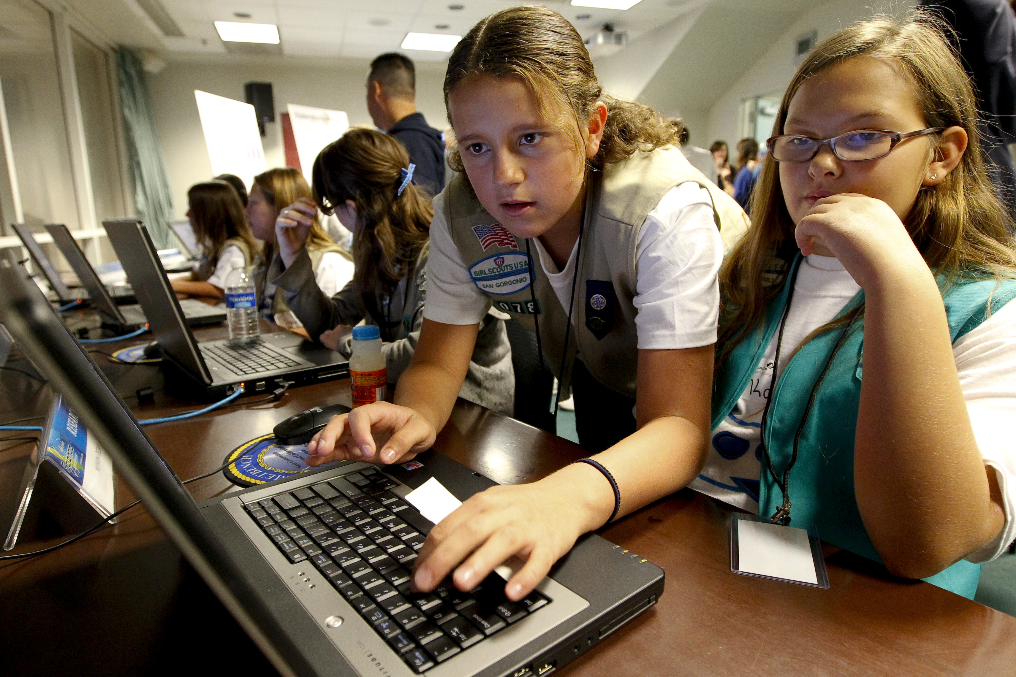 NORCO, Calif. (Nov. 6, 2010) Girl Scouts compete in the Mission Ocean Challenge during the USS California Science Experience at Naval Surface Warfare Center, (NSWC) Corona Division. The only public event in California to coincide with the East Coast christening of USS California (SSN 781), the Navy's eighth Virginia-class submarine and the first submarine named for California, is intended to introduce students to real world applications of science, technology, engineering and math as part of NSWC Corona's continuing efforts to identify and inspire the next generation of scientists and engineers. (U.S. Navy photo by Greg Vojtko/Released)